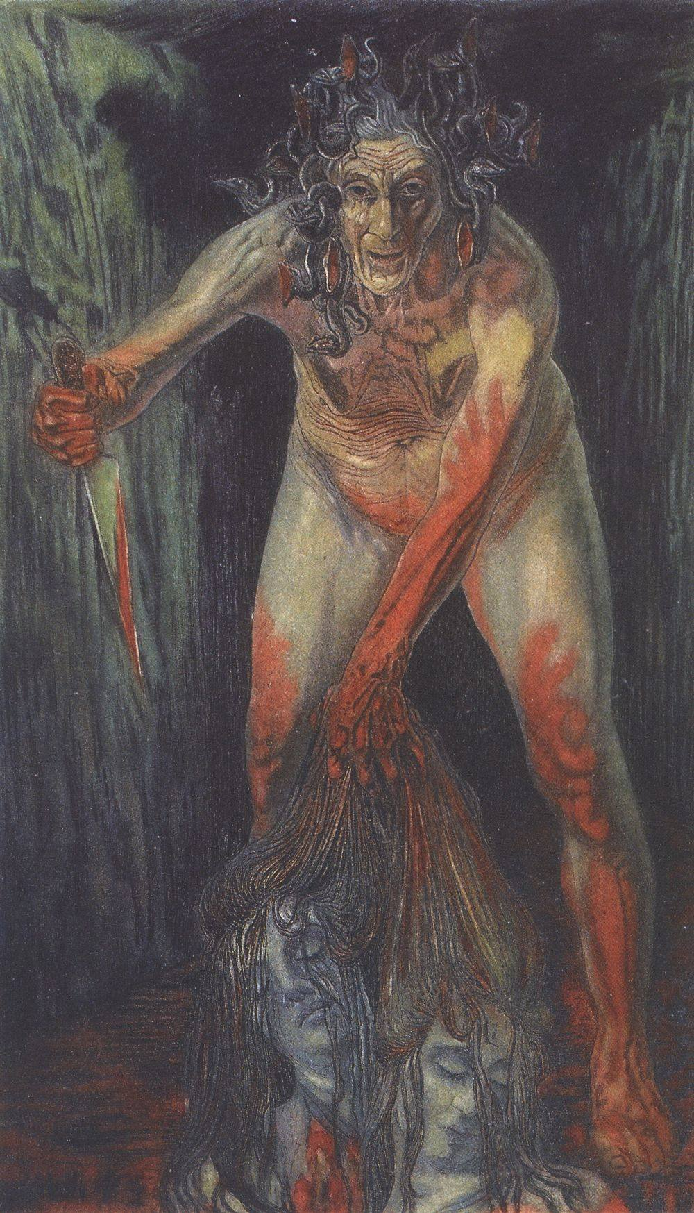 Altona (Germany)